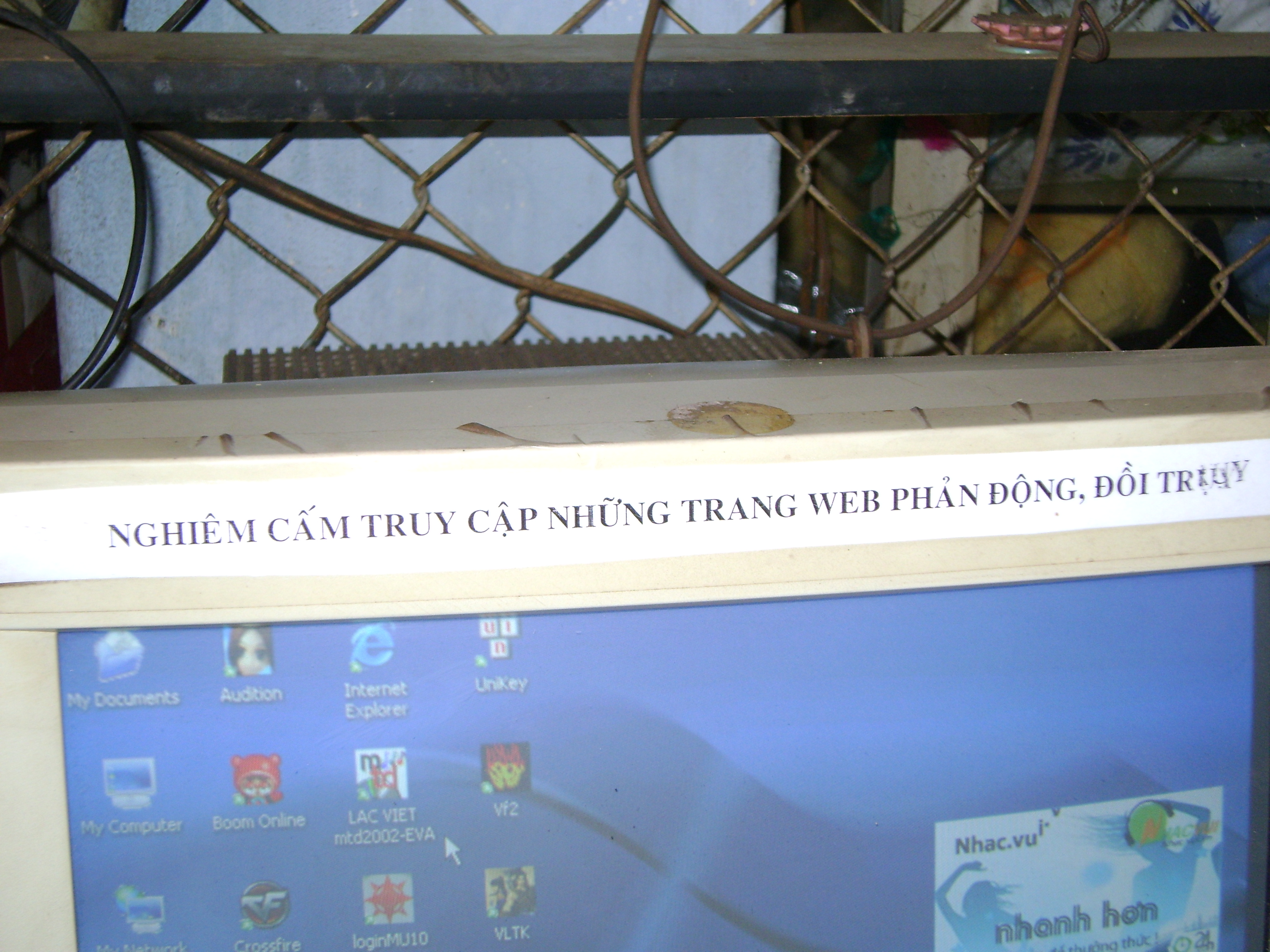 A warning to customers at an Internet cafe in Thu Duc, Ho Chi Minh City, Vietnam. The message taped along the top of the monitor warns against accessing "depraved" or "reactionary" materials online. The message reads [It is] strictly forbidden to access reactionary, depraved web pages